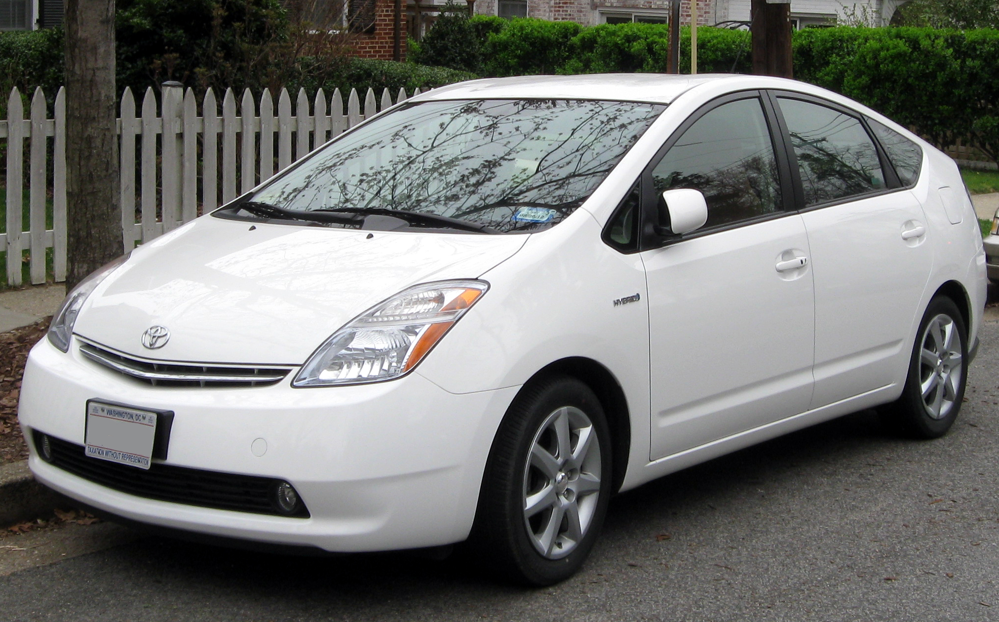 2007-2009 Toyota Prius photographed in Washington, D.C., USA.